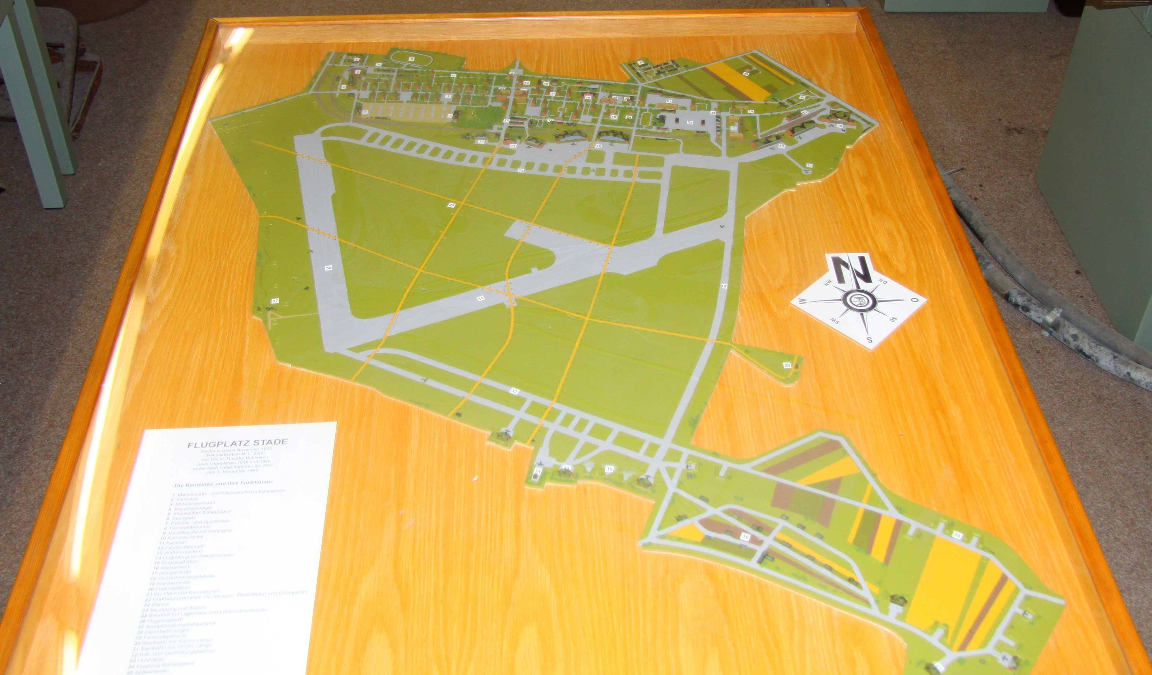 Scale model of Flugplatz Stade by Dieter-Theodor Bohlmann at the Technik- und Verkehrsmuseum Stade. Scale is 1:2000, airfield and installations shown as they were in November 1943. Annotations: FLUGPLATZ STADE Ausbauzustand November 1943 Rekonstruktion M(aßstab) 1:2000 von Dieter-Theodor Bohlmann nach Lageplänen 1939 und 1945 sowie nach Luftaufnahmen der RAF vom 5. November 1943 Die Bauwerke und ihre Funktionen: 1. Mannschafts- und Offiziersunterkunftskasernen 2. Gärtnerei 3. Motorenwerkstatt 4. Bauarbeiterlager 5. Kleinkaliber-Schießstand 6. Sportplatz 7. Exerzier- und Sporthallen 8. Fernmeldebunker 9. Hauptwache mit Gefängnis 10. Kommandantur 11. Kantinen 12. Fahrbereitschaft 13. Waffenmeisterei 14. Flugleitung mit Platzfeuerwehr 15. Flugzeughallen 16. Wasserwerk 17. Lehrgebäude 18. Vorkommandogebäude 19. Krankenrevier 20. Funkmeisterei 21. Kfz-Halle und Exerzierplatz 22. Kraftfahrkommando mit Garagen, Werkstätten und Übungsplatz 23. Wache 24. Bauleitung und Kasino 25. Bahnhof mit Lagerhaus und Lokomotivschuppen 26. Flugzeugwerft 27. Kompensationsdrehscheibe 28. Dienstwohnungen 29. Funkpeilgebäude 30. Startbahn mit 1000 m Länge 31. Startbahn mit 1200 m Länge 32. Roll- und Verbindungsbahnen 33. Holzhallen 34. Flugzeug-Schießstand 35. Splitterboxen 36. Munitionslager 37. Flakstände 38. Tarnstraßen